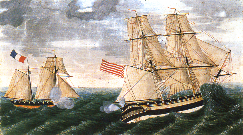 Painting of an engagement between the german brig Bremen and the french privateer Democrat in 1797.